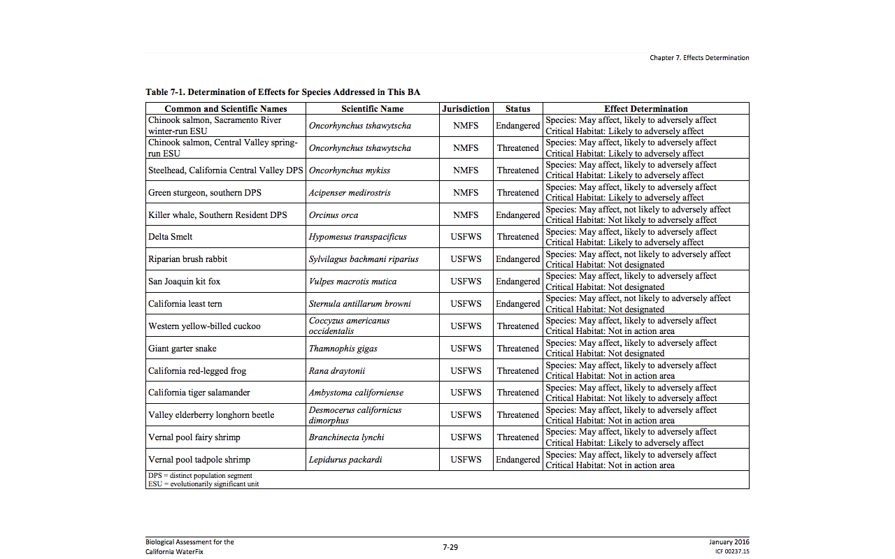 Table of the endangered or threatened species that will be affected by the proposed California Fix